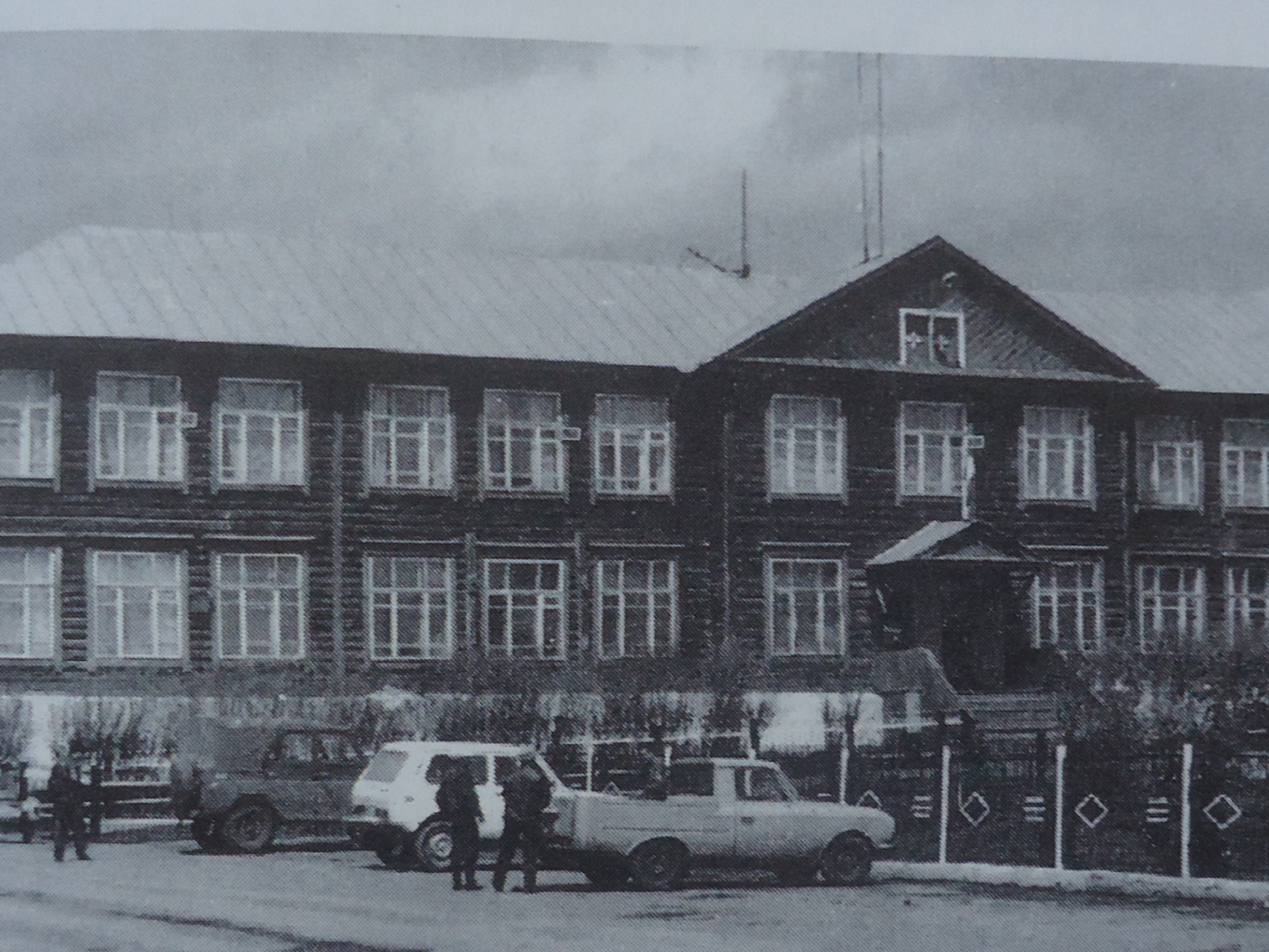 Темясовское педучилище в 1936-1956 годах располагалось в этом здании.